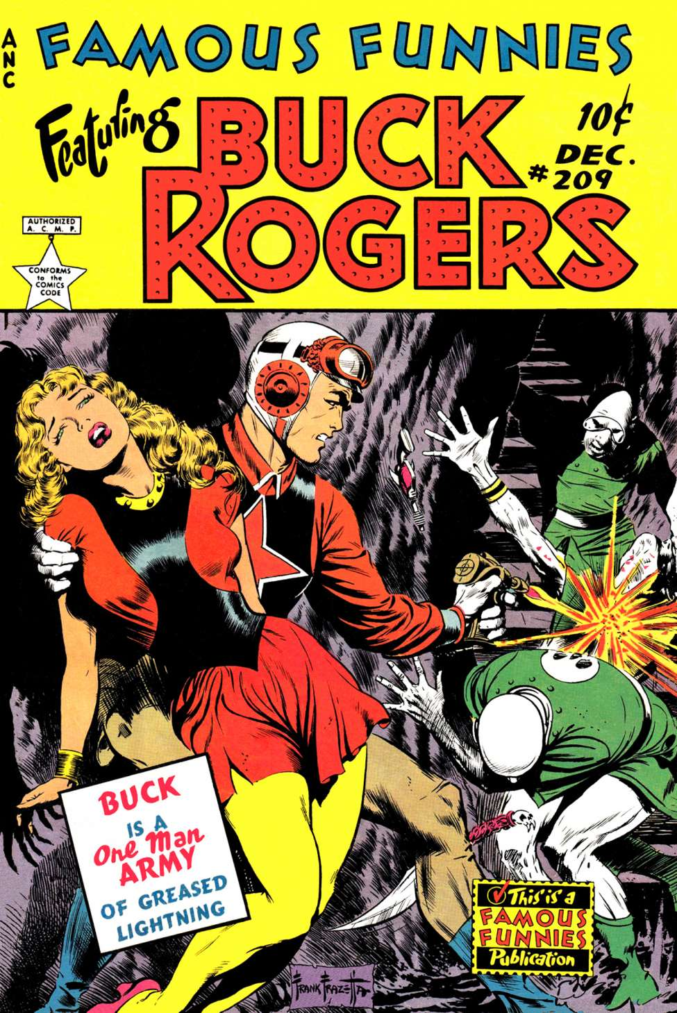 Cover of Famous Funnies number 209 (December 1953), featuring artwork by Frank Frazetta. Publisher: Eastern Color. Oddly enough, the cover feature (Buck Rogers) appears nowhere in the book.